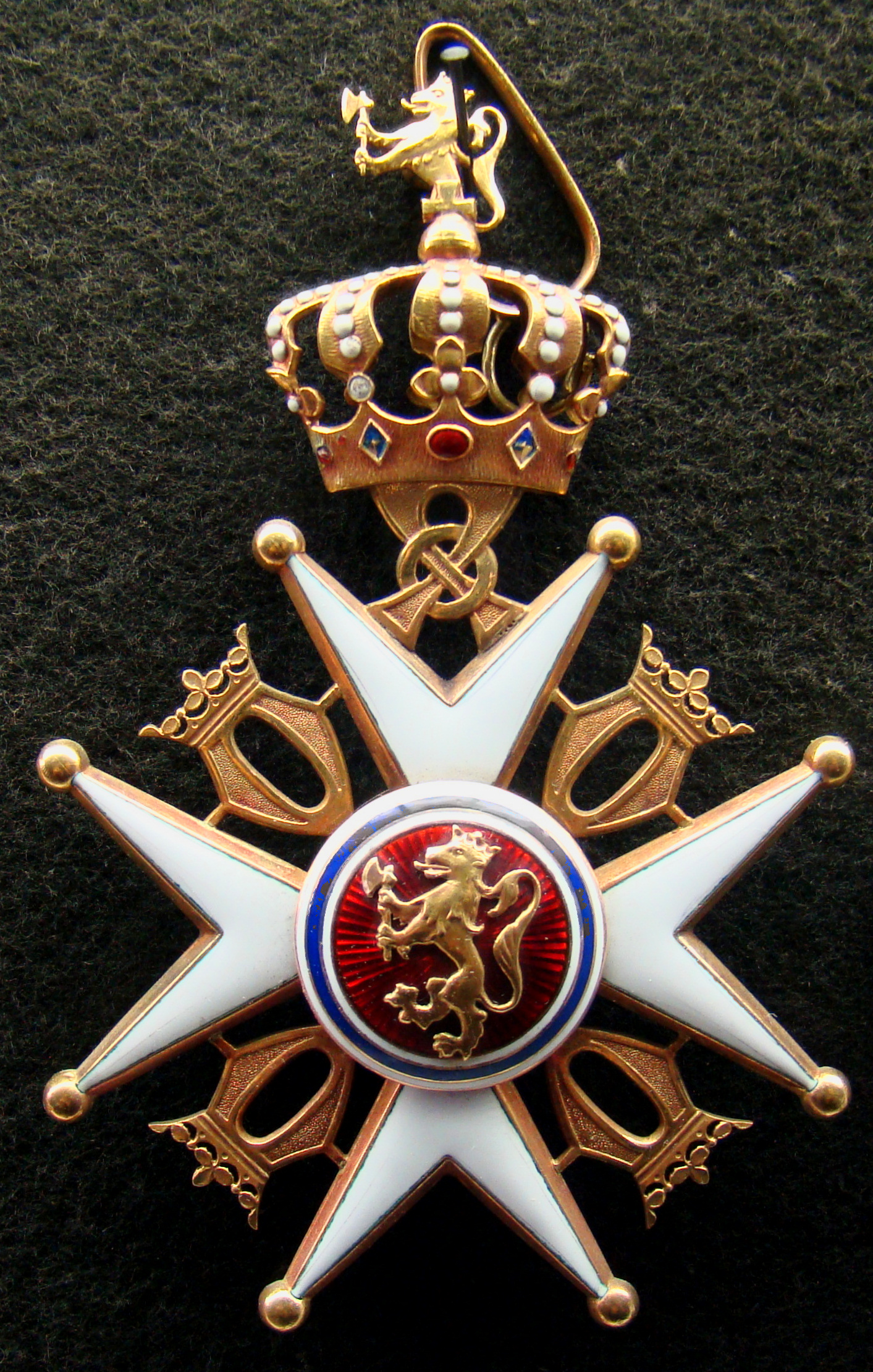 The Cross of the Norwegian Order of Saint Olav. Photographed at the Fram Museum in Oslo, Norway.